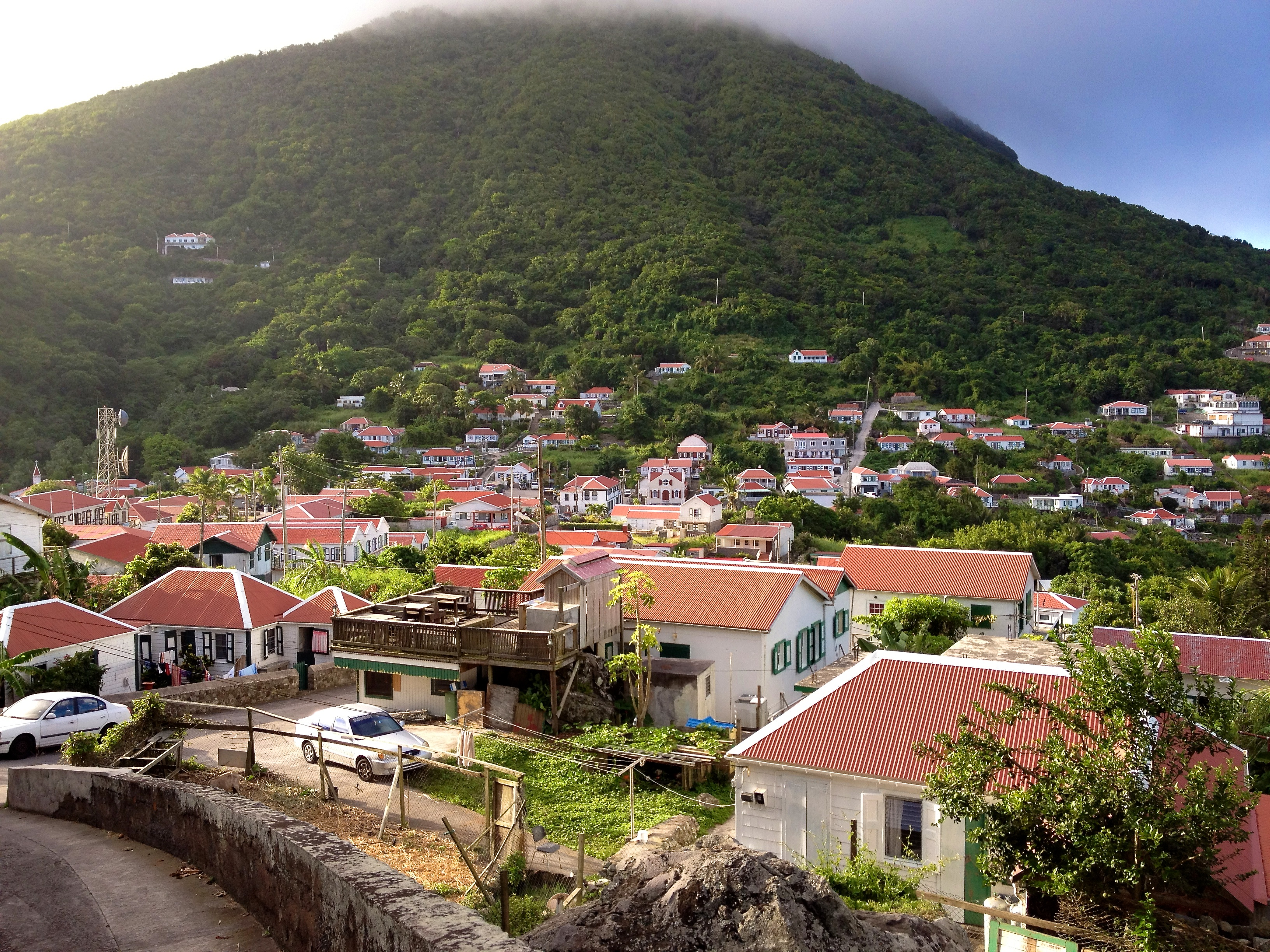 View of Windwardside from Booby Hill